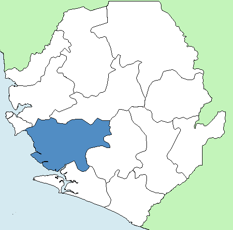 Map showing location of Moyamba District in Sierra Leone